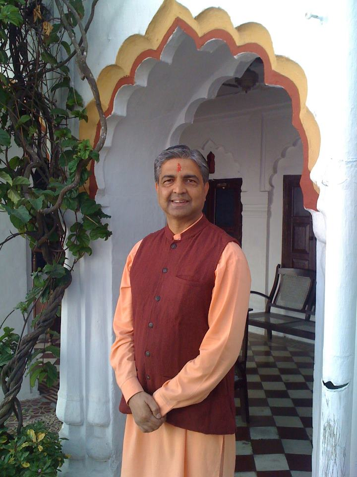 Kunwar Bhartendra Singh is the current king of Sahanpur royal state.He is from Kakran clan.